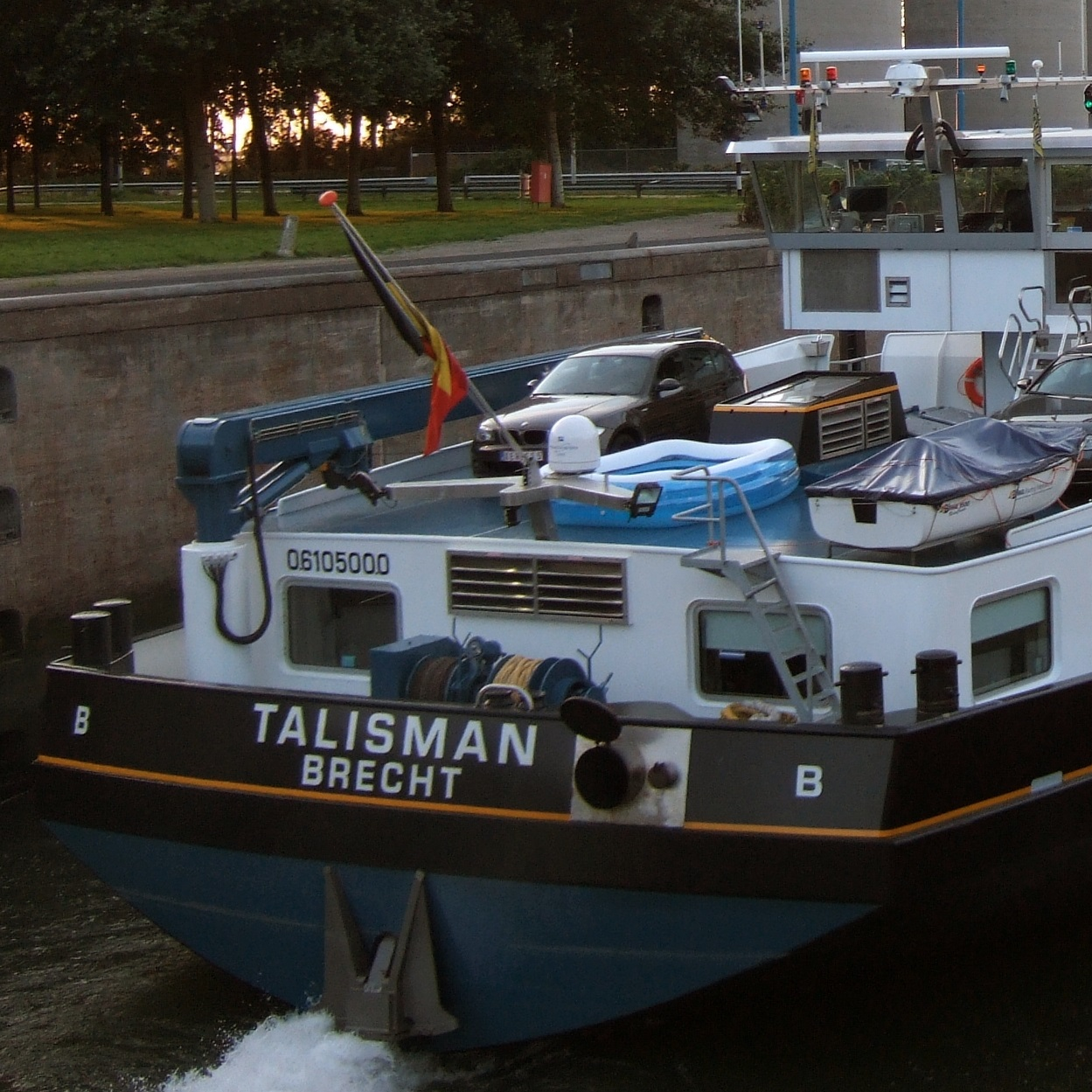 View of the stern of the Belgian vessel Talisman, including the vessel name (Talisman), home port (Brecht), and ENI number (06105000)